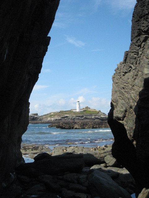 Godrevy lighthouse Seen from the rocky beach on Godrevy Point.